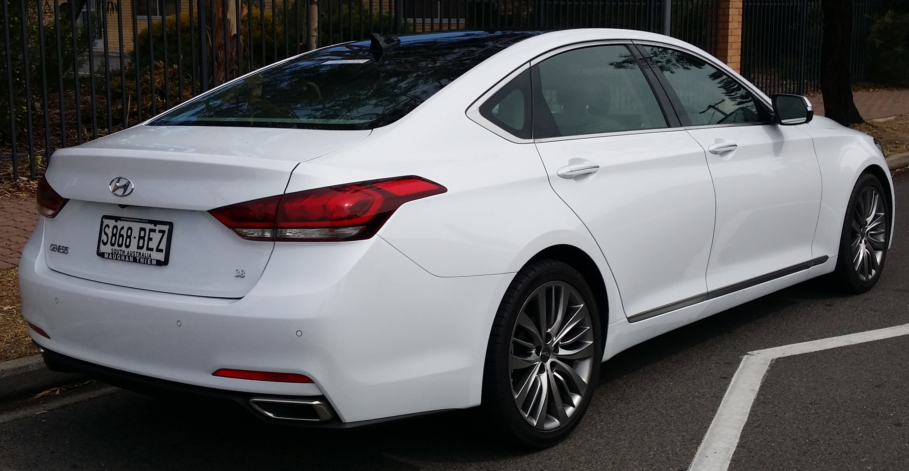 2015 Hyundai Genesis (DH) Ultimate Pack sedan, photographed in Adelaide, South Australia, Australia.